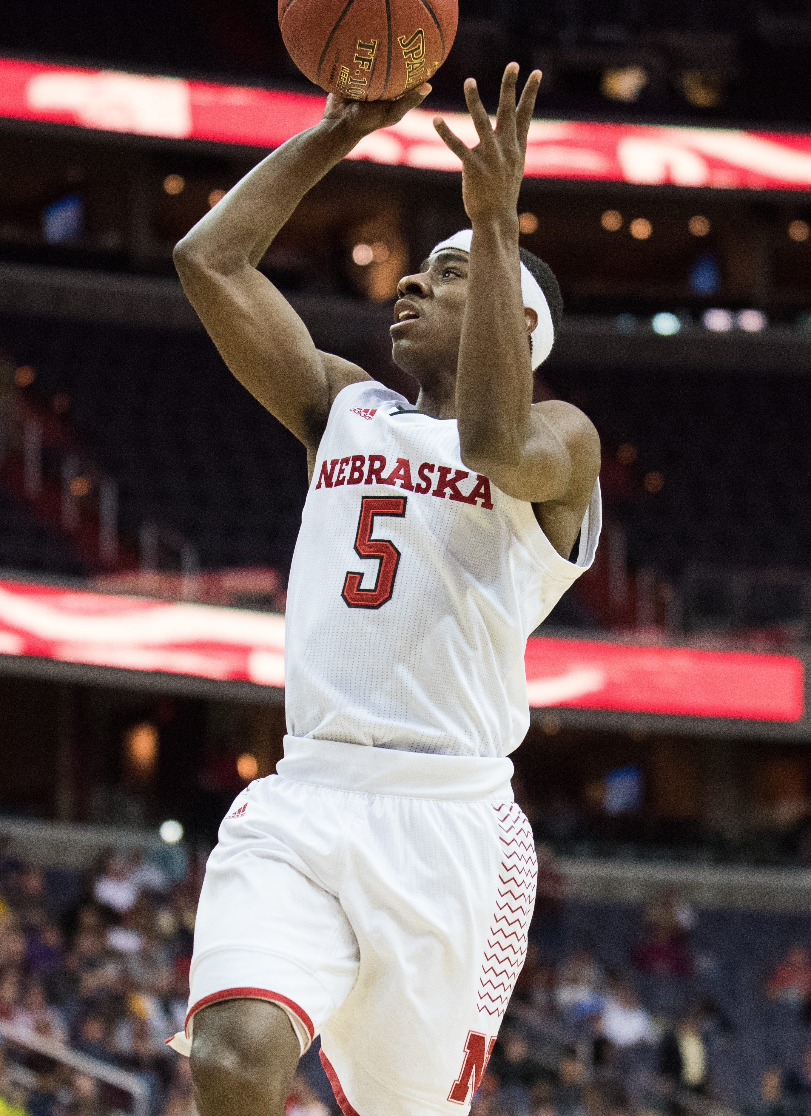 Glynn Watson shoots for Nebraska